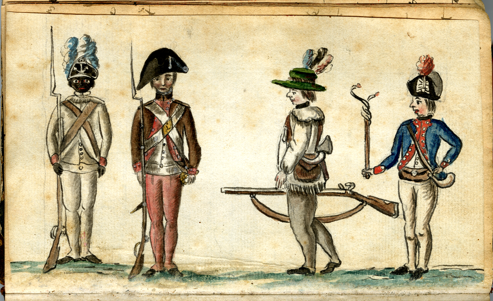 This watercolor from the American War of Independence is by Jean Baptiste Antoine de Verger (1762-1851), a French artist who himself fought in the war as a sub-lieutenant in a French regiment and who kept an illustrated journal of his experiences in the war. The watercolor, which appears in the journal, shows the variety of soldiers fighting for American independence, depicting, from left to right, a black soldier of the First Rhode Island Regiment, a New England militiaman, a frontier rifleman, and a French officer. An estimated 5,000 African-American soldiers fought in the Revolutionary War. Although most black soldiers from New England fought in integrated regiments, the First Rhode Island was an exception--it was made up of 197 black men commanded by white officers. Nevertheless, it was considered an elite unit, and saw action at the Battle of Rhode Island and the Siege of Yorktown. The watercolor is part of the Anne S.K. Brown Military Collection at the Brown University Library, the foremost American collection devoted to the history and iconography of soldiers and soldiering, and one of the world’s largest collections devoted to the study of military and naval uniforms. Diaries; Soldiers; United States -- History -- Revolution, 1775-1783; Verger, Jean Baptiste Antoine de, 1762-1851